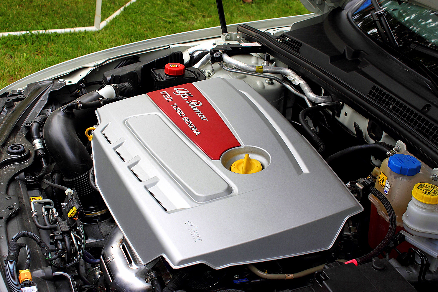 Alfa Romeo 1750 TBi turbo engine